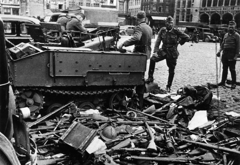 Vickers Utility Tractor (VUT) of the Belgian Army